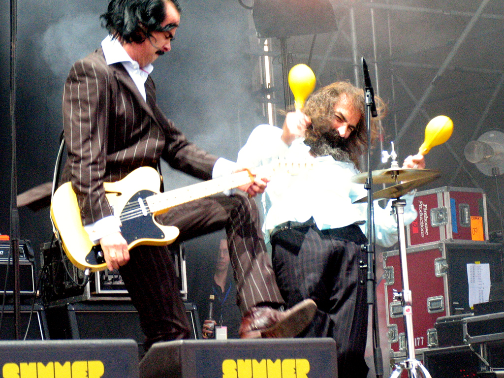 Alternative rock band Grinderman performing at Summercase music festival in Barcelona in July 2008.